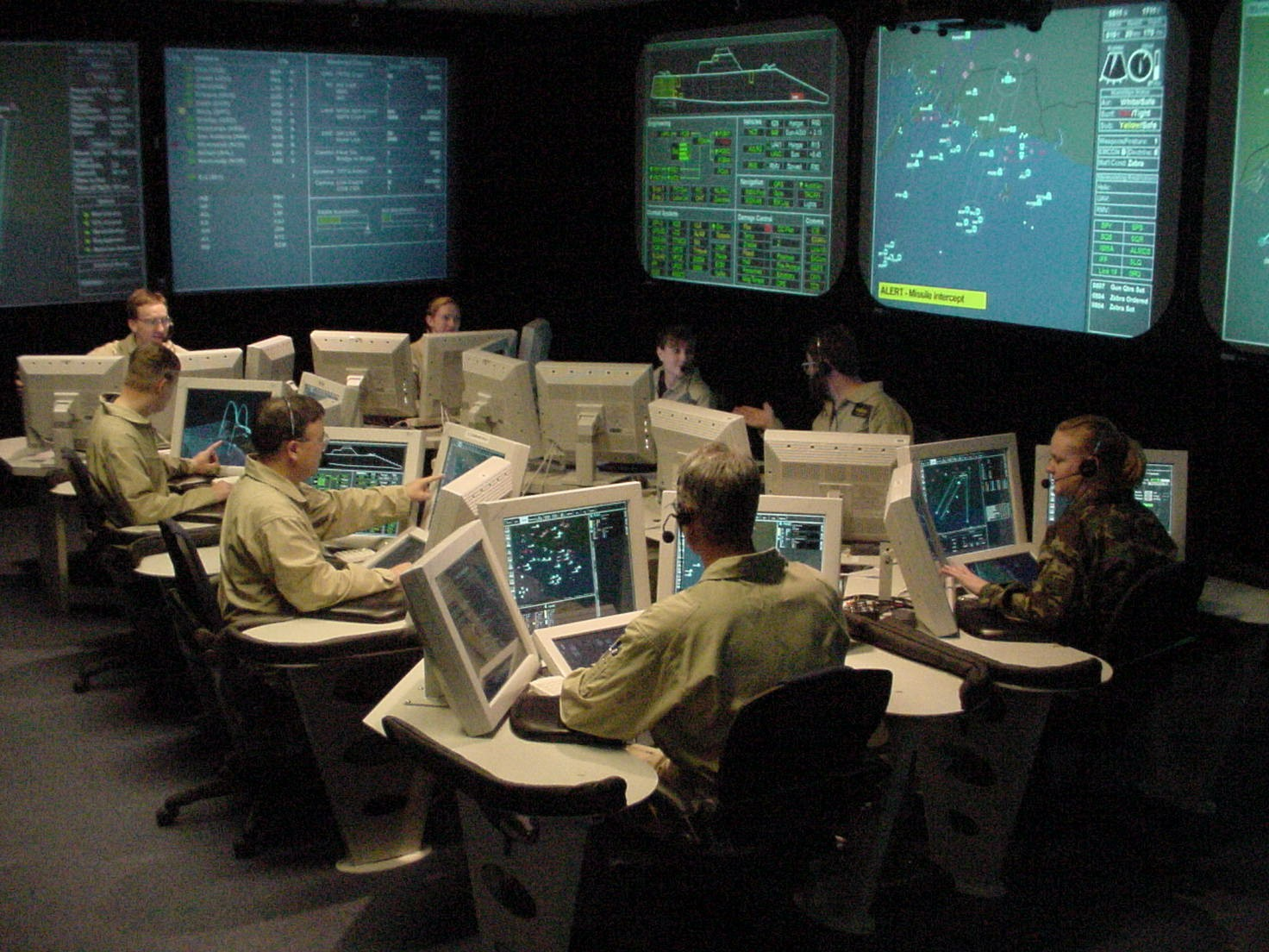 Naval Surface Warfare Center (NSWC) Dahlgren, Va. (Aug. 19, 2004) - Naval reservists, scientists and engineers work in the Integrated Command Environment (ICE) Human Performance laboratory located at NSWC Dahlgren, Va. The ICE lab focuses on the Navy's evolving human performance and human systems integration (HSI) testing. The lab demonstrates the ability to fight future battles with HSI- engineered hardware, software and features common consoles, displays, and knowledge management features that Fleet Sailors helped design to enhance human performance and mission accomplishment. ICE is part of the vision of Sea Power 21. NSWC Dahlgren provides research, development, test and evaluation, engineering, and fleet support for: Surface Warfare, Surface Ship Combat Systems, Ordnance, Strategic Systems, Mines, Amphibious Warfare Systems, Mine Countermeasures, and Special Warfare Systems. U.S. Navy photo (RELEASED)